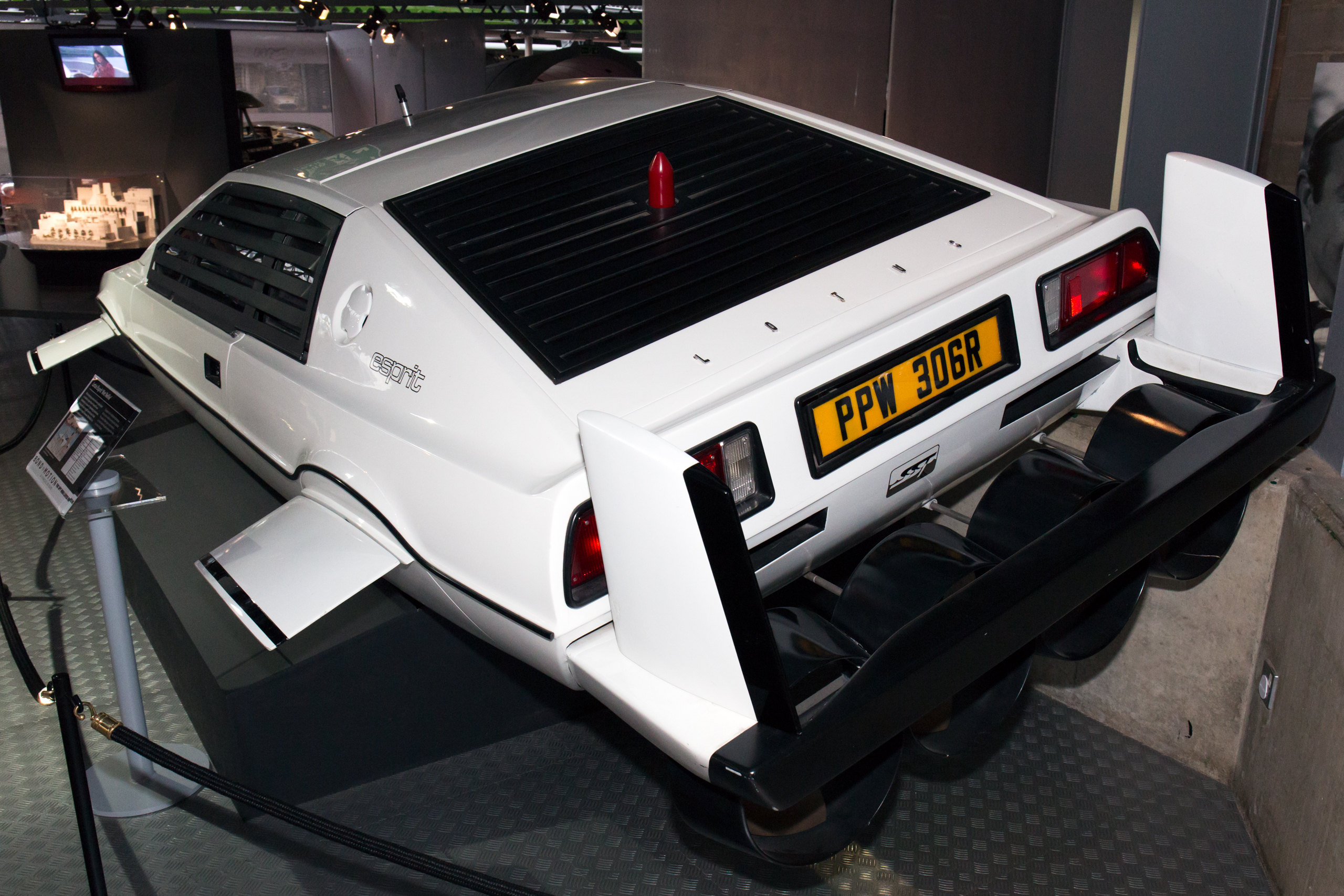 Lotus Esprit, from "The Spy Who Loved Me" (1977)